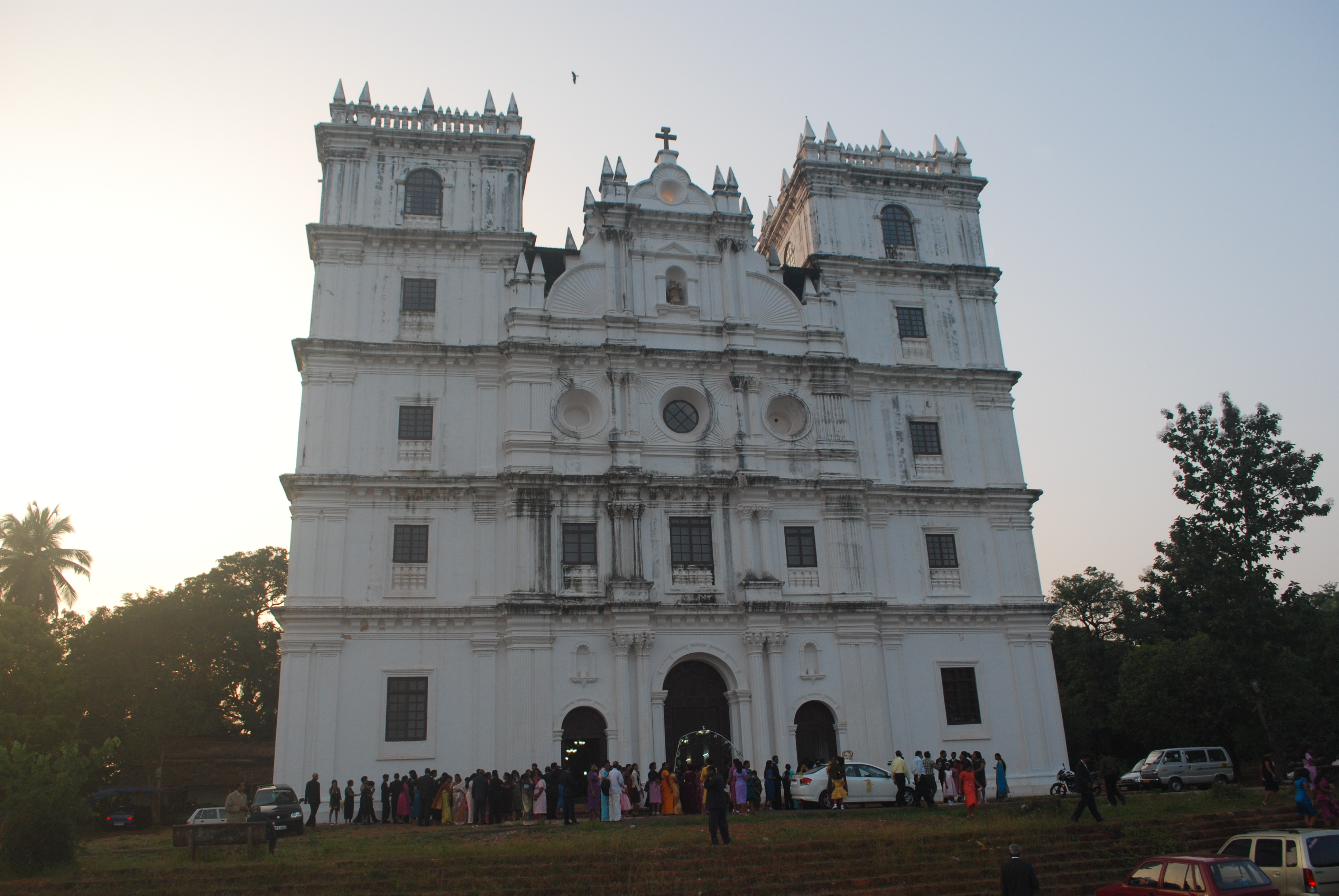 St. Anne Church Santan Talaulim Goa